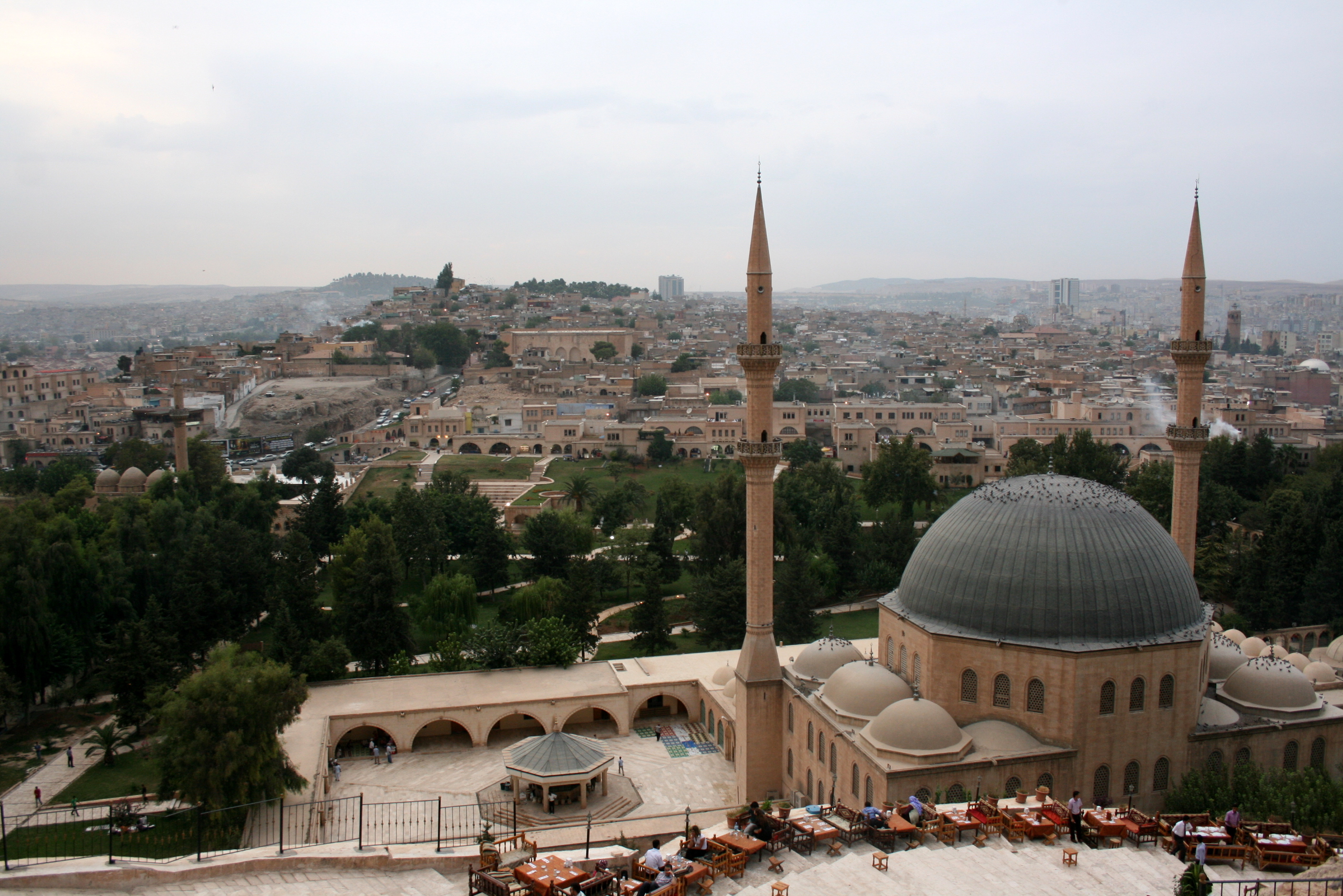 Picture of the Şanlıurfa/Urfa skyline.